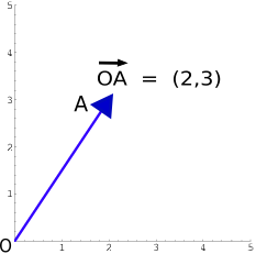 Mathematica with post-processing in inkscape.